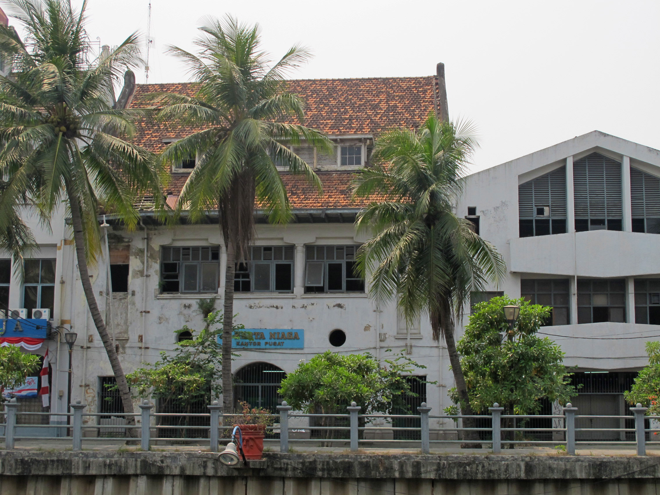 Kerta Niaga insurance (1966)